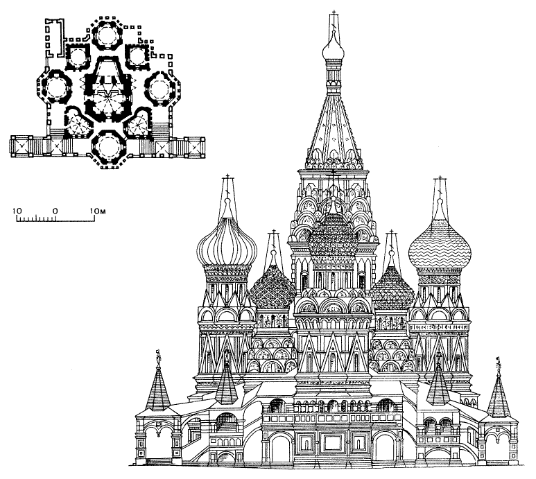 Line drawing of St Basil's Basilica